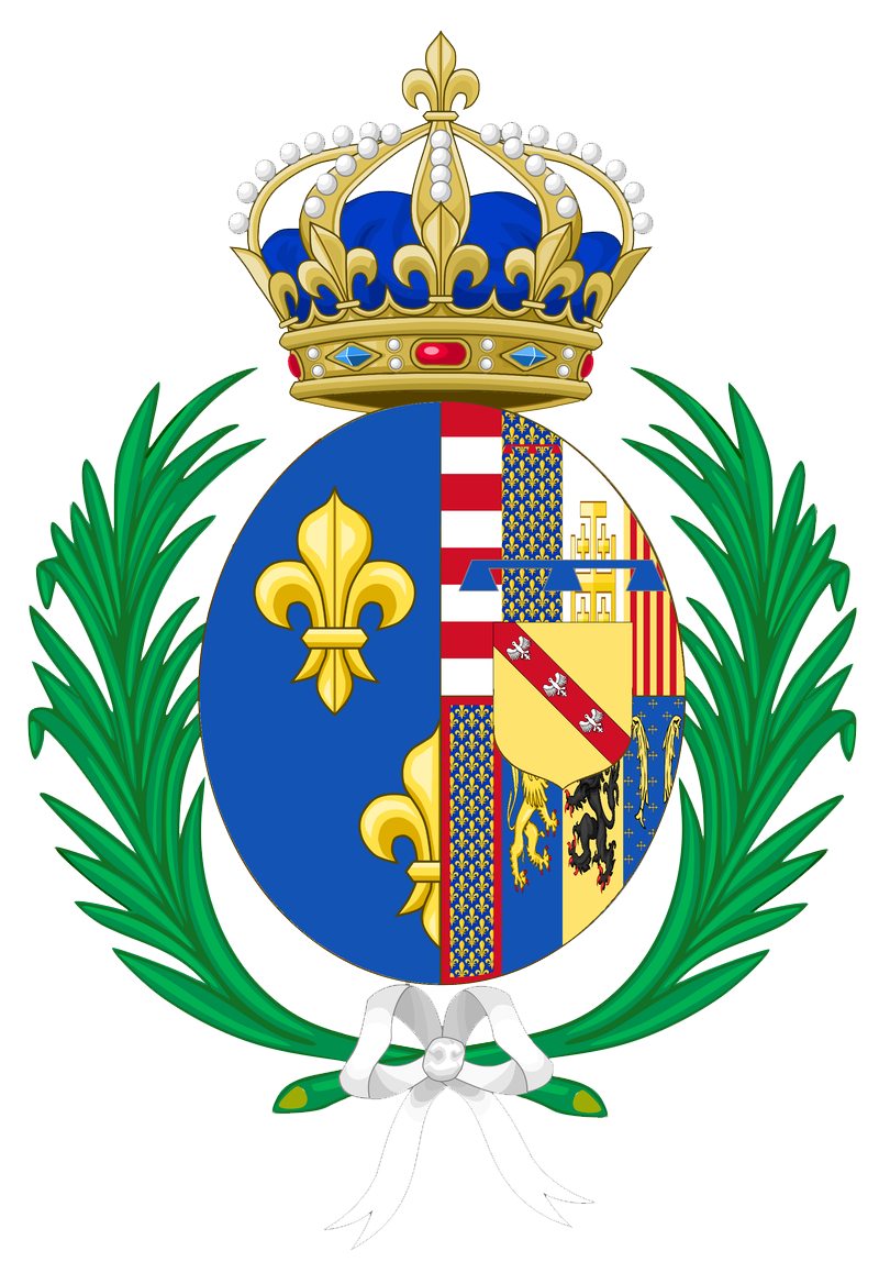 Arms of the queen Louise of Lorraine, wife of Henry III of France. To improve if necessary.